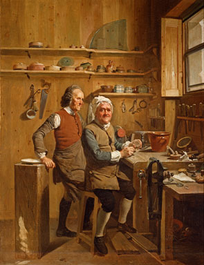 John Cuff and his assistant, ca. 1772, oil on canvas, The Royal Collection by Johan Zoffany